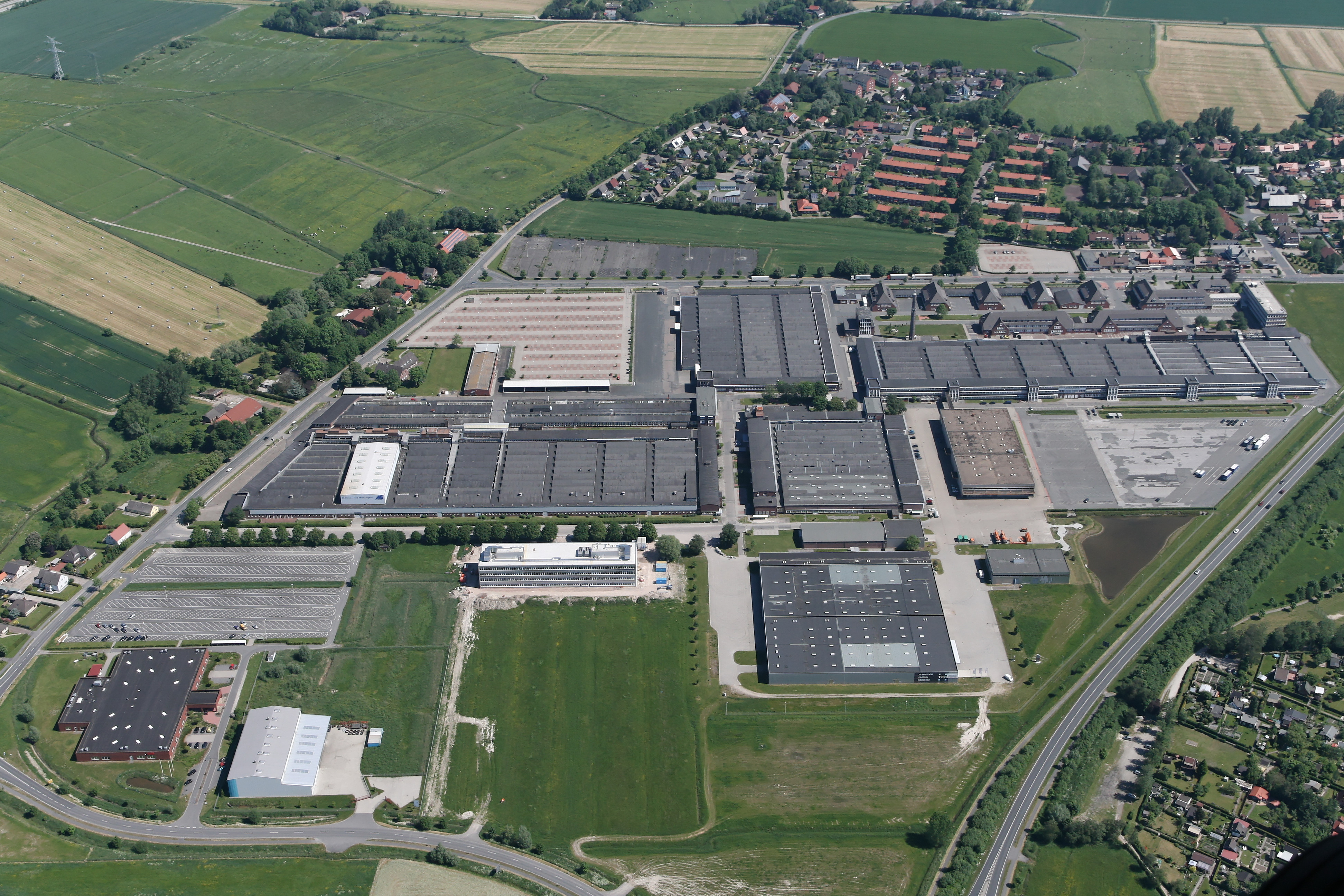 A aerial photograph of Roffhausen.